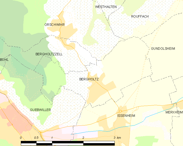 Map of French municipality